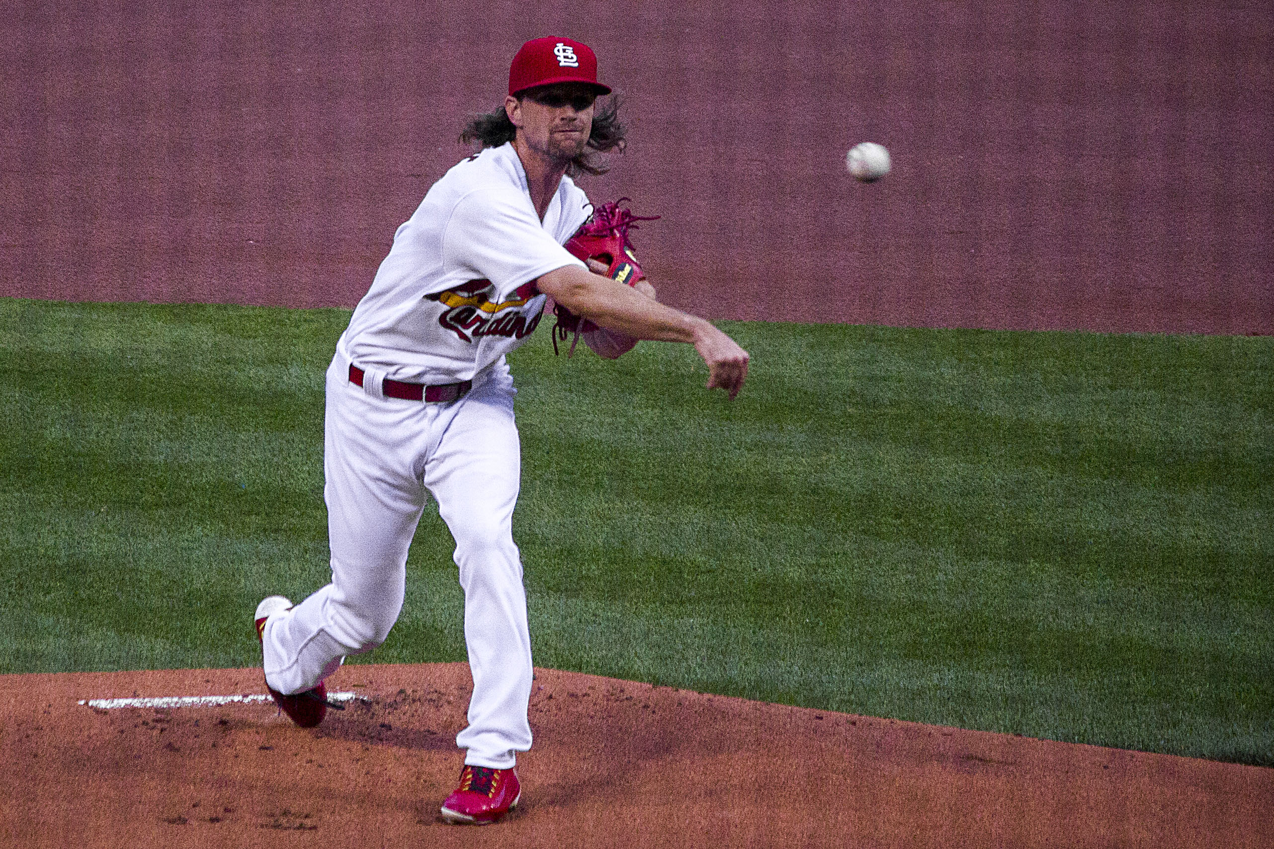 Mike Leake with the St.Louis Cardinals in 2017.